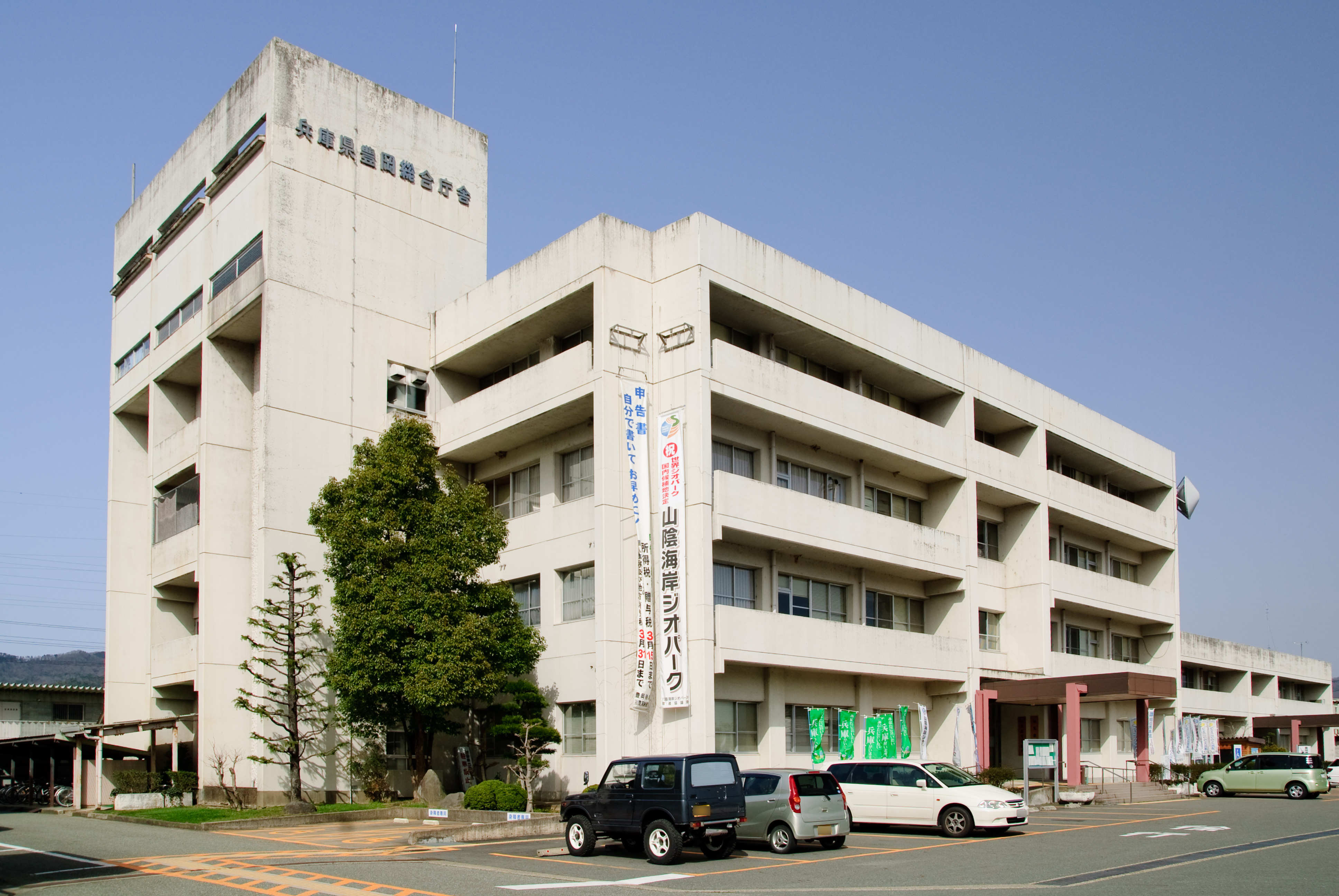 Toyooka Perf Branch Office.